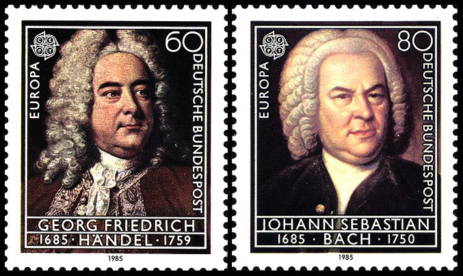 Postage stamps of West Germany, 1985. Issue under the EUROPA CEPT program. "European Year of Music." Thomas Hudson (1701–1779). Portrait of Georg Friedrich Handel, 1741. Elias Gottlieb Haussmann (1695–1774). Portrait of Johann Sebastian Bach, 1748.